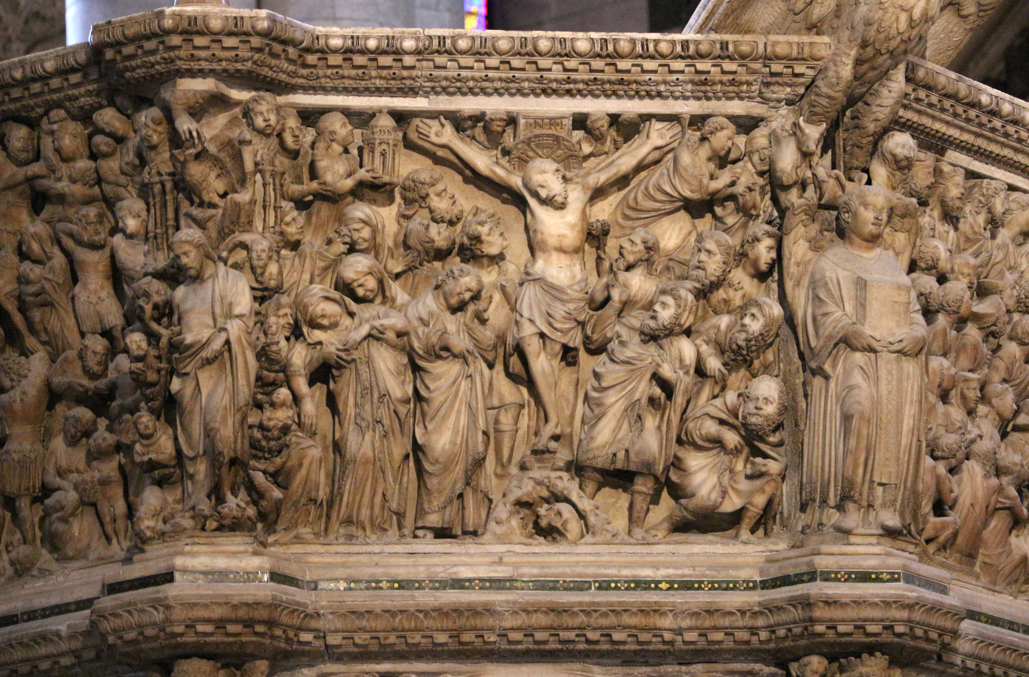 Cathedral (Siena) - Pulpit